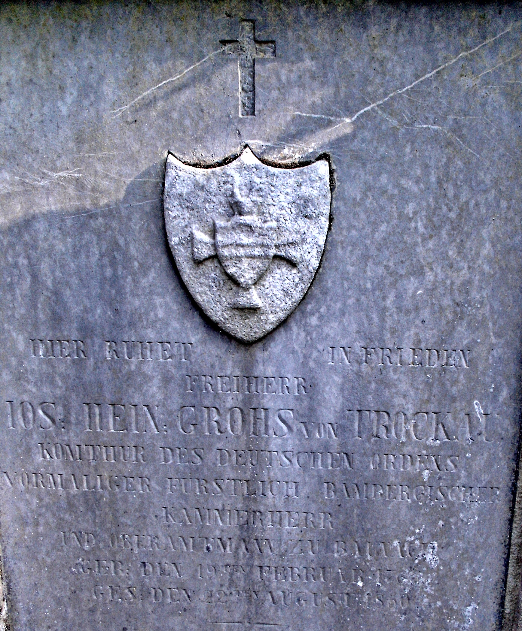 Grabstein Joseph Heinrich Groß von Trockau, (1766-1850), Deutschordenskomtur, Hauptfriedhof Mannheim